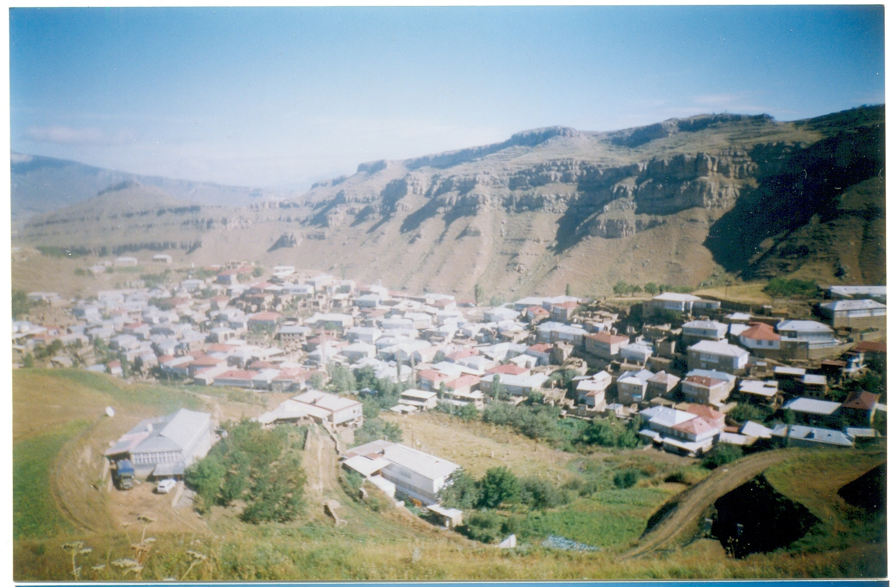 Village of Kundi in the Lak district of Daghestan.